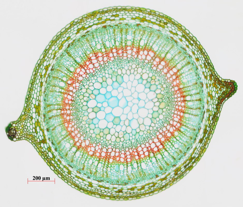 Hypericum perforatum (Common St John's wort) Stem cross section, stain: Acridine red and Astra blue/Acriflavin.